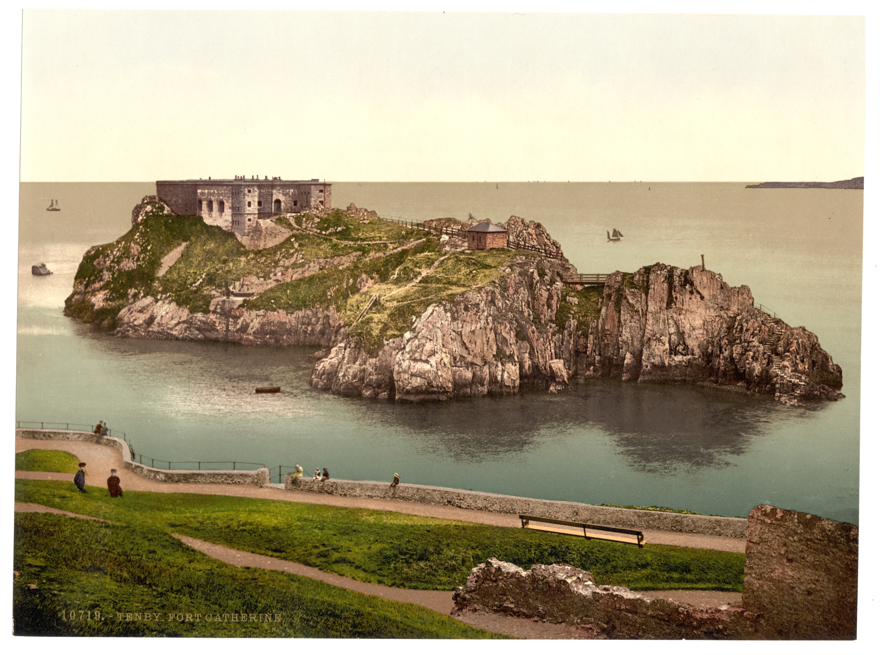 Title from the Detroit Publishing Co., catalogue J-foreign section. Detroit, Mich. : Detroit Photographic Company, 1905.; More information about the Photochrom Print Collection is available at Forms part of: Views of landscape and architecture in Wales in the Photochrom print collection.; Print no. "10719".